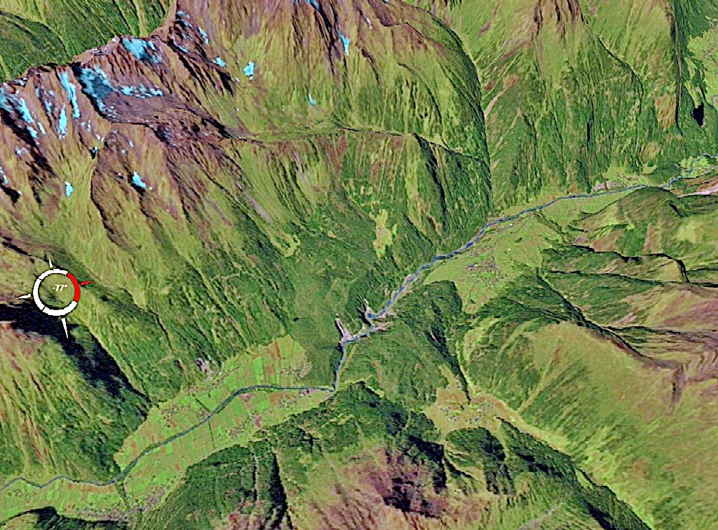 Site of the Köfels landslide (Ötztal, Tyrol, Austria). About 8,700 years ago, some 3 cubic kilometers rock slided down the western side of the Ötztal. The rubble blocked the Ötztaler Ache, which later formed a small canyon (Maurach). Friction caused the Gneiss at the base of the landslide to melt, forming a glassy rock known as Köfelsite.